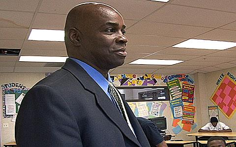 Brian Dwight Taylor